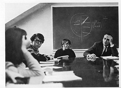 Students and facilitator discuss a text in a typical Shimer College class.